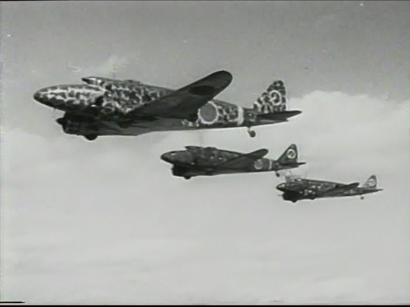 Nakajima Ki-34, Airbrne Scene from "Kato hayabusa sento-tai (Colonel Kato's Falcon Squadron)".